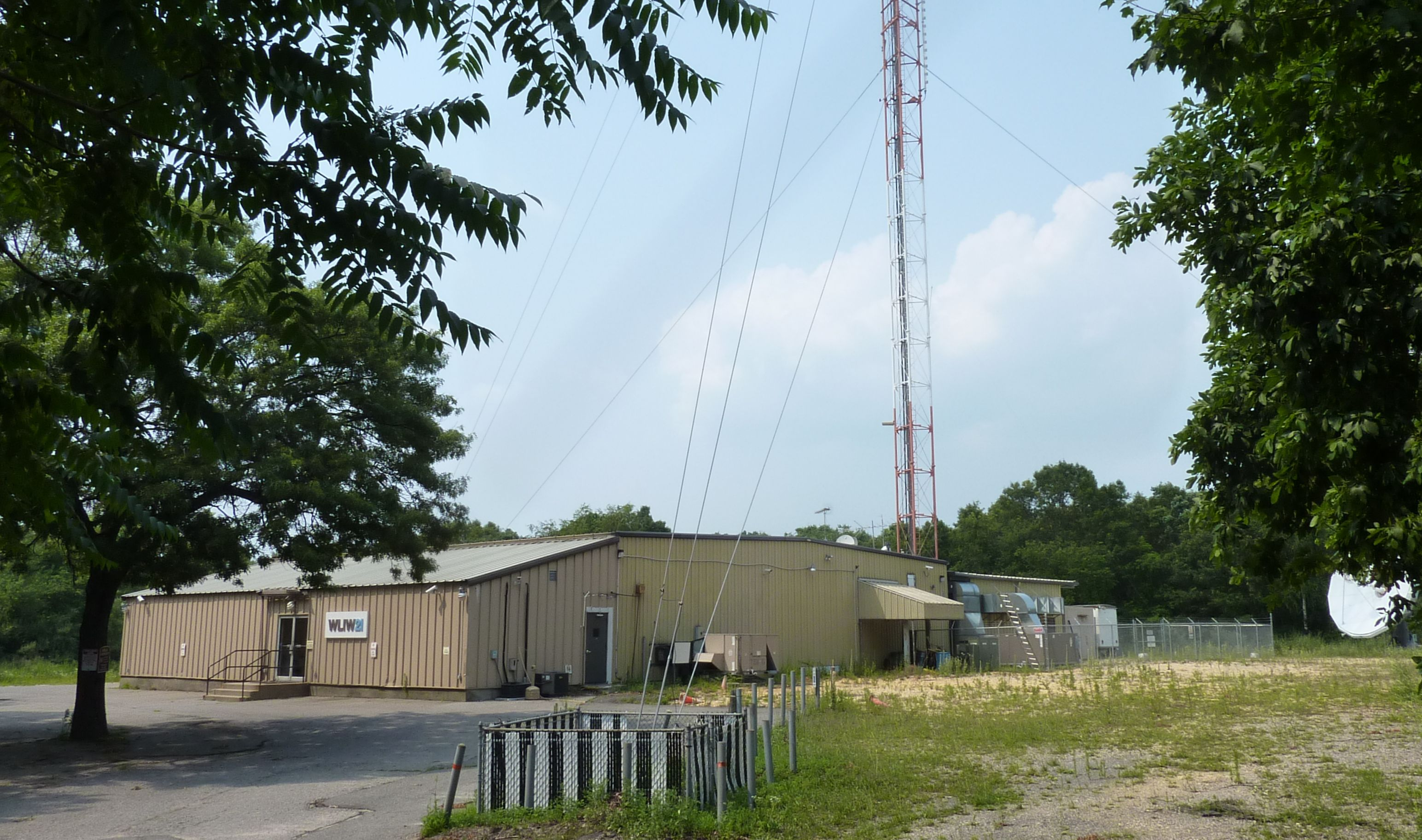 WLIW studios in Plainview, New York